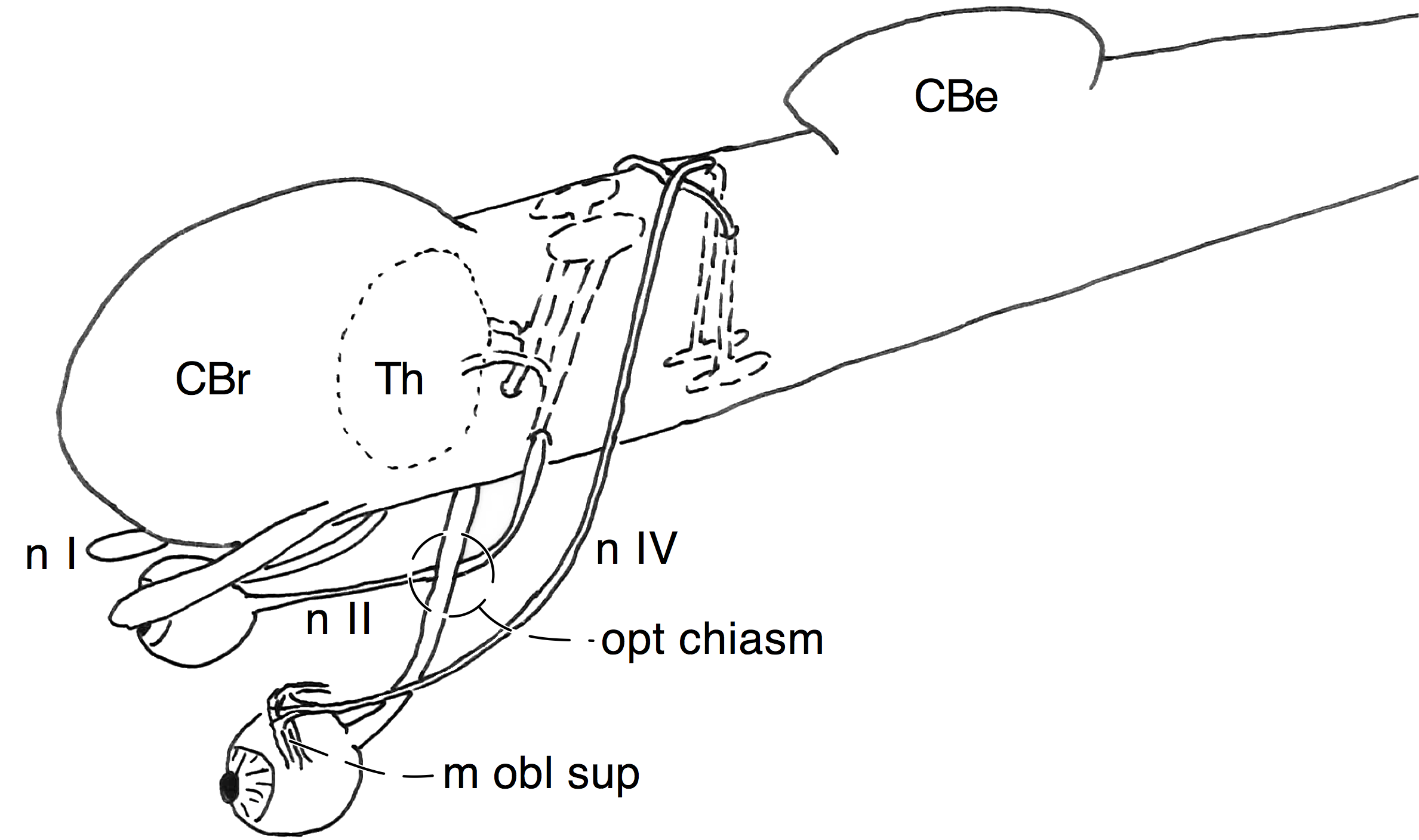 Schema of the optic and trochlear chiasmas in relation to the vertebrate brain. The optic tracts originate in the retinas, chiasmate on the ventral midline of the brain, and end on the contralateral dorsal optic tectum of the midbrain. In many vertebrates a branch ends on the LGN of the thalamus. The troclear nerve originates from the motor centres in the ventral midbrain, chiasmate on the dorsal side of the midbrain and innervate the m. obl. sup. of the contralateral eye. By contrast, the olfactory tracts end on the ipsilateral cerebrum, without chiasma. n I: olfactory tract; n II: optic tract; n IV trochlear nerve; CBr: cerebrum; Th: thalamus; CBe cerebellum; m obl sup: musculus obliquus superior.